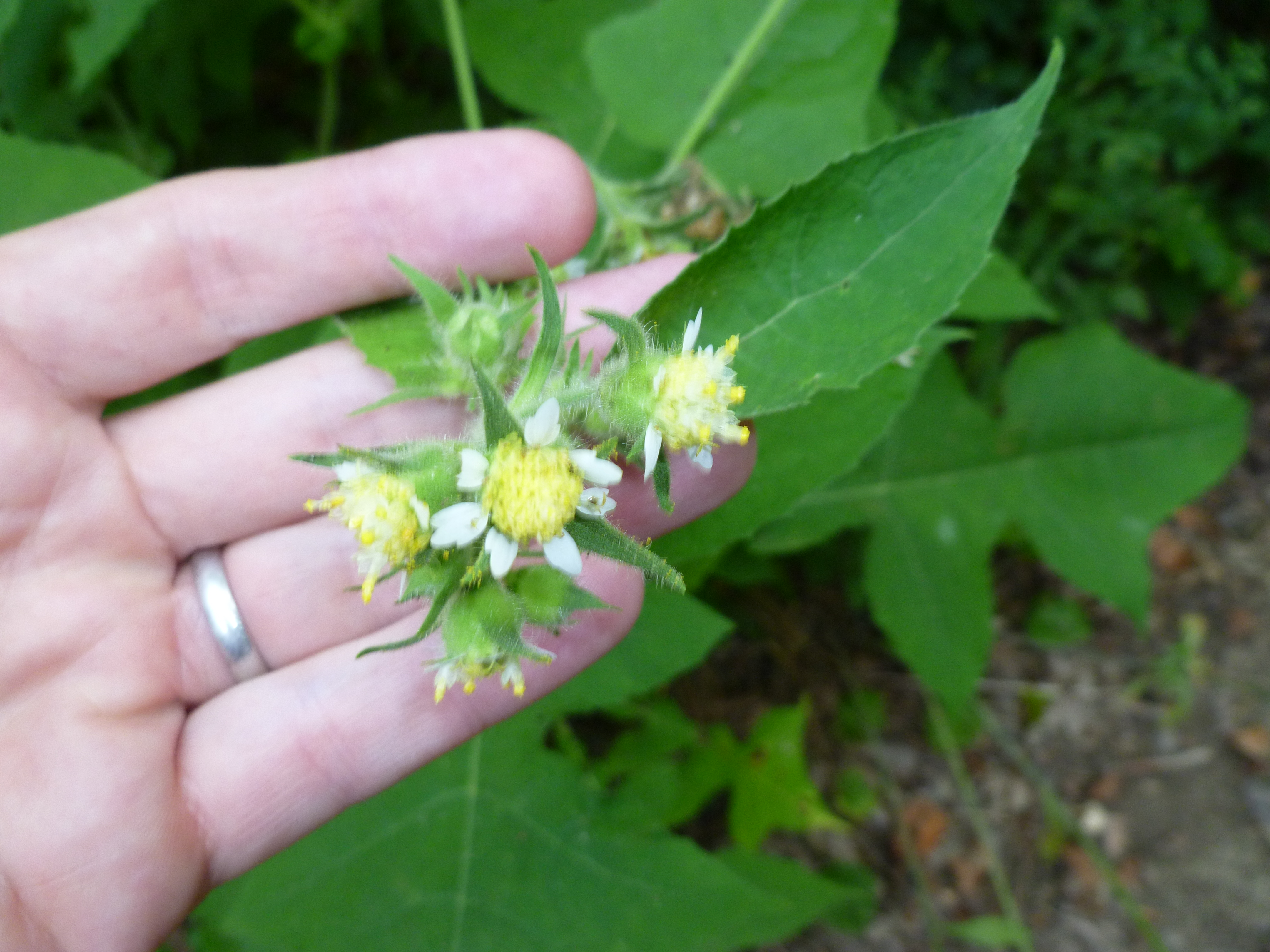 Bears foot leaf identification